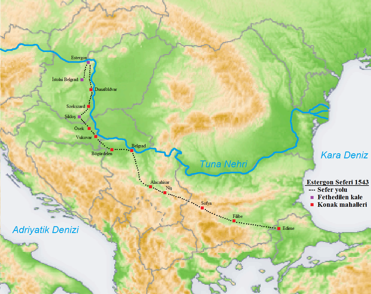 Map of the Ottoman Esztergom campaign in 1543. Source:[1]